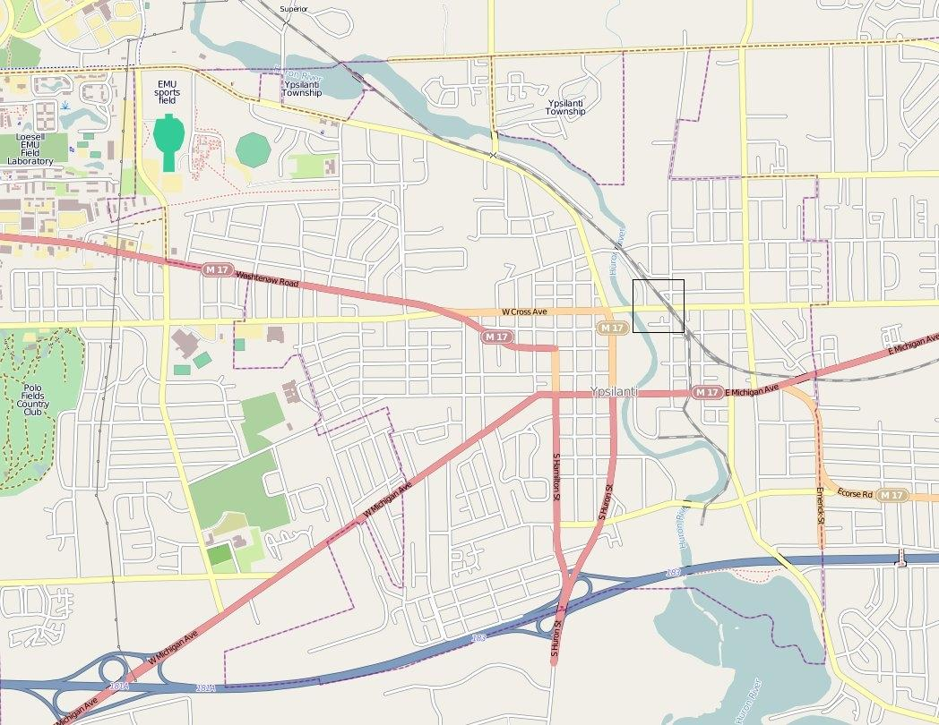 This map of Ypsilanti, indicating the location of Depot Town, was created from OpenStreetMap project data, collected by the community. This map may be incomplete, and may contain errors. Don't rely solely on it for navigation. Border coordinates42.2635-83.661←↕→-83.587442.2221